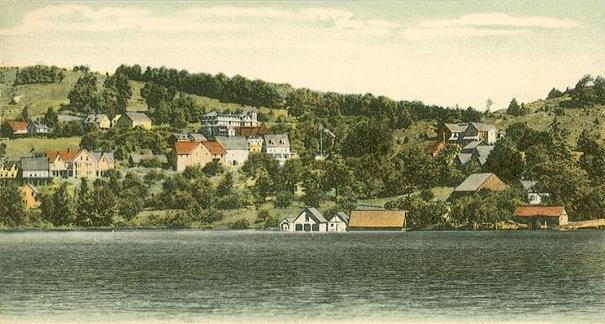 George's Mills from Lake Sunapee, NH; from a c. 1905 postcard.